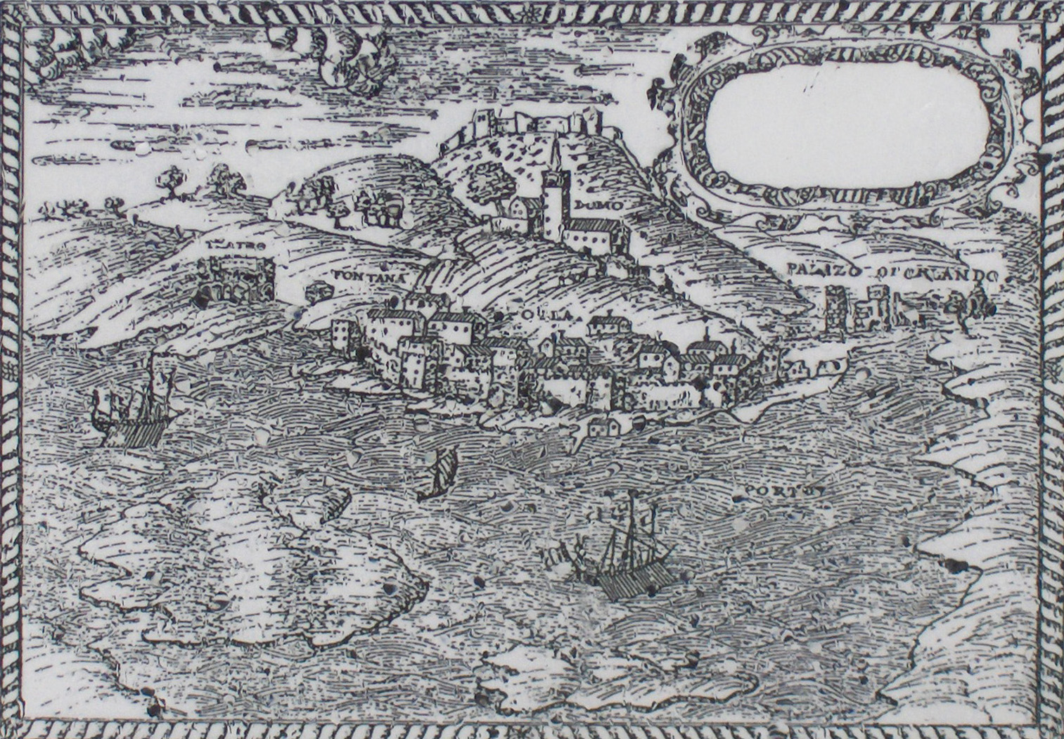 Historical map: Pula, 1584, then in the Republic of Venice (today in Croatia).